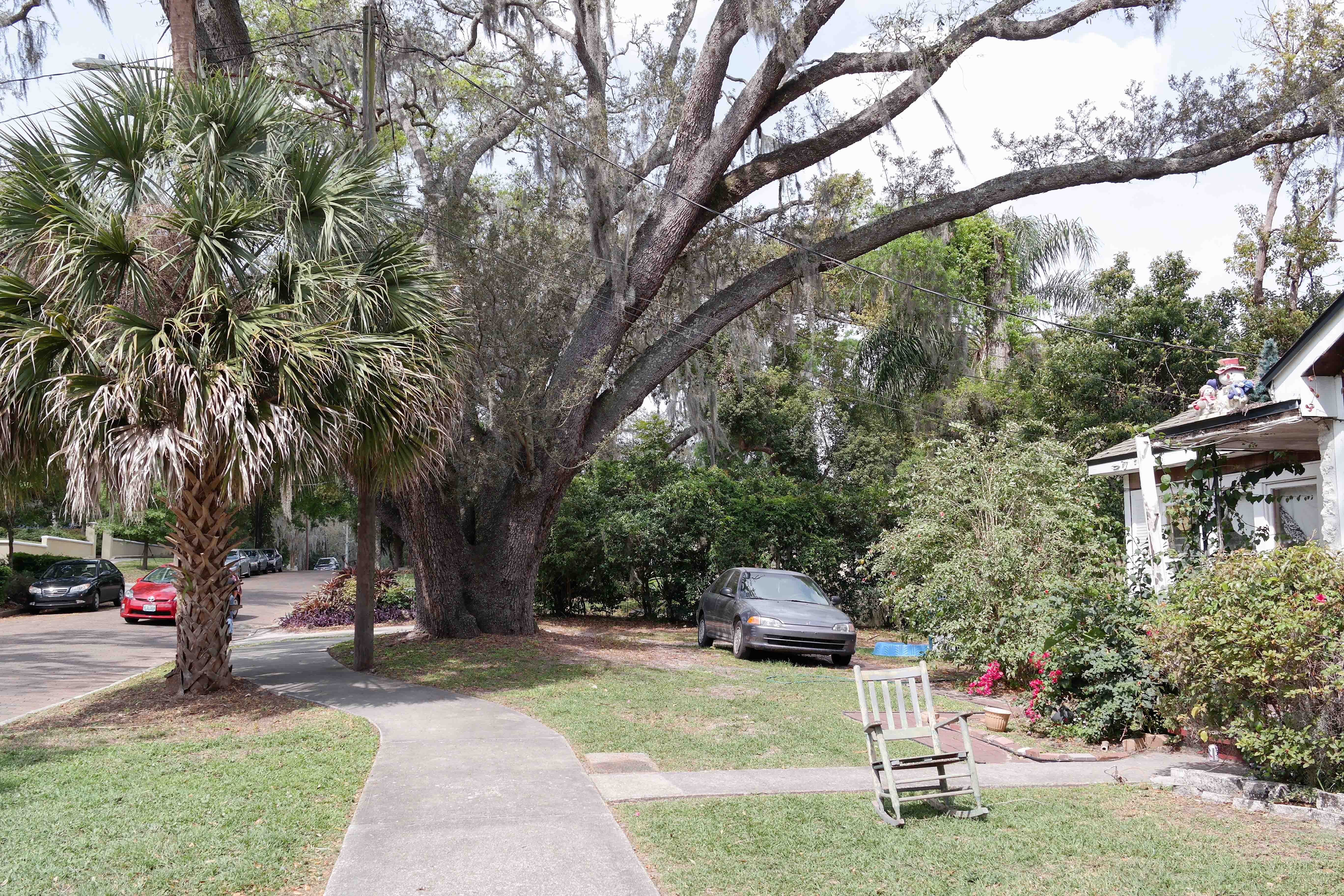 A front yard in the Lake Eola Heights Historic District in Orlando, Florida